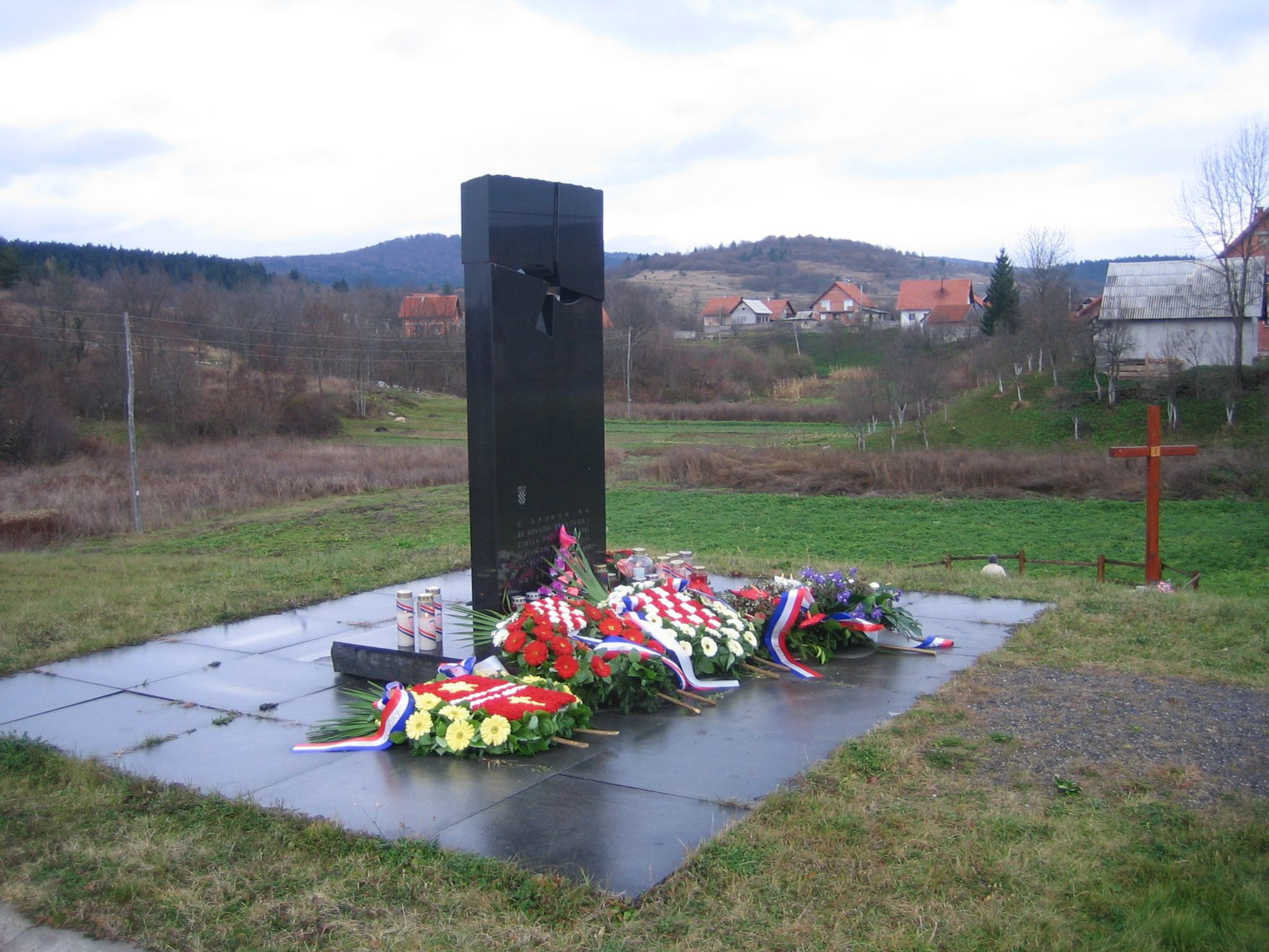 Memorial, to the victims of the Saborsko Massakre 1991